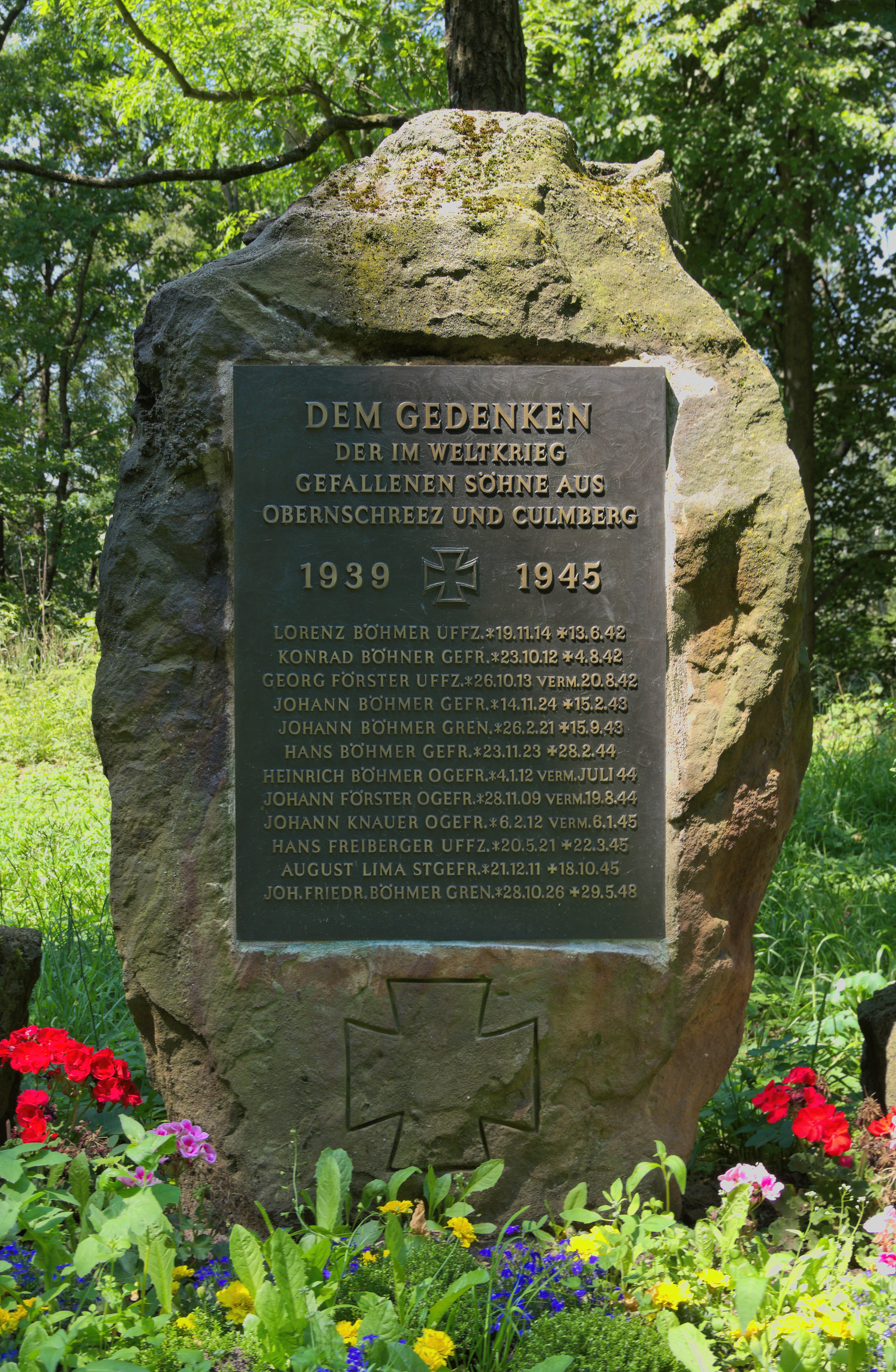 Memorial for the fallen or missed People during World War II from Obernschreez and Culmberg.